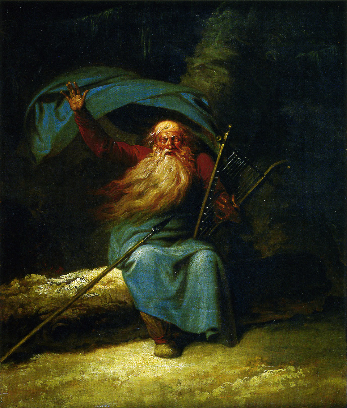 Ossian's Swansong (ca. 1782) by Nicolai Abraham Abildgaard (1743-1809)